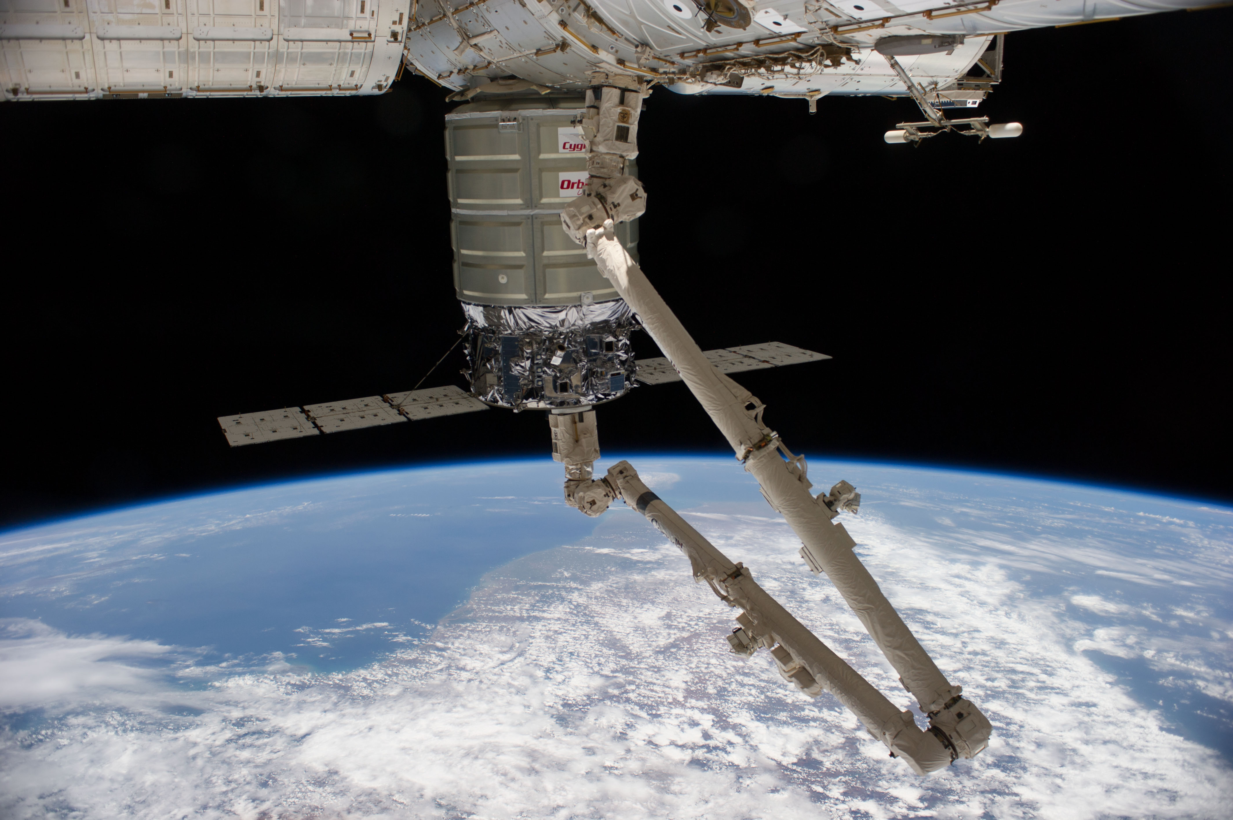 The Orbital Sciences' Cygnus cargo craft attached to the end of the Canadarm2 robotic arm is berthed to the nadir port of the Harmony node of the International Space Station, photographed by an Expedition 40 crew member. A blue and white part of the Earth and the blackness of space provide the backdrop for the scene.